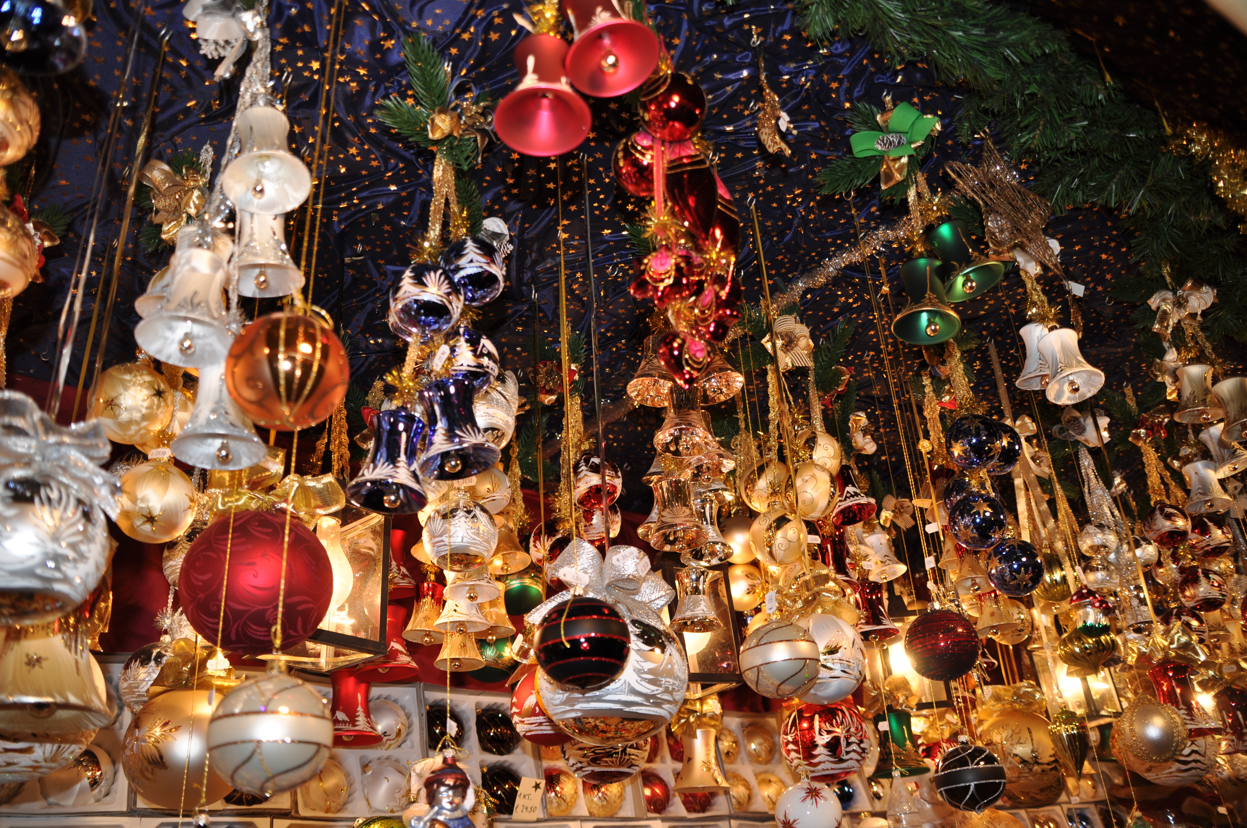 Christmas ornament